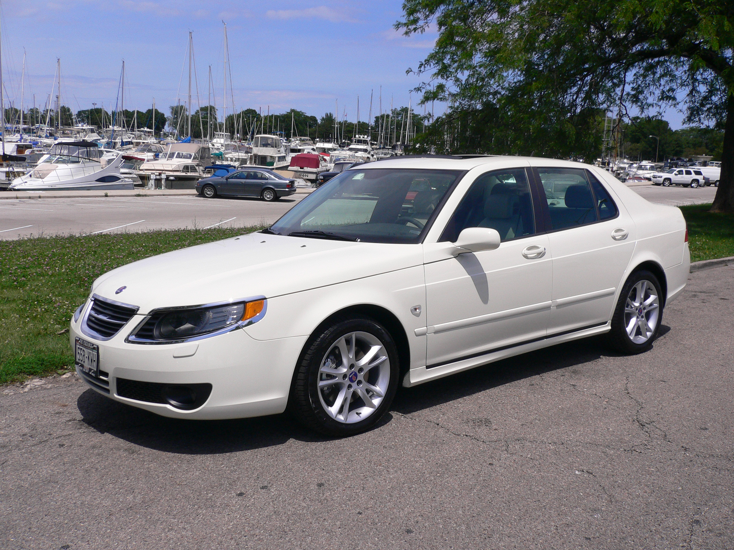 2007 Saab 9-5 Polar White - Front